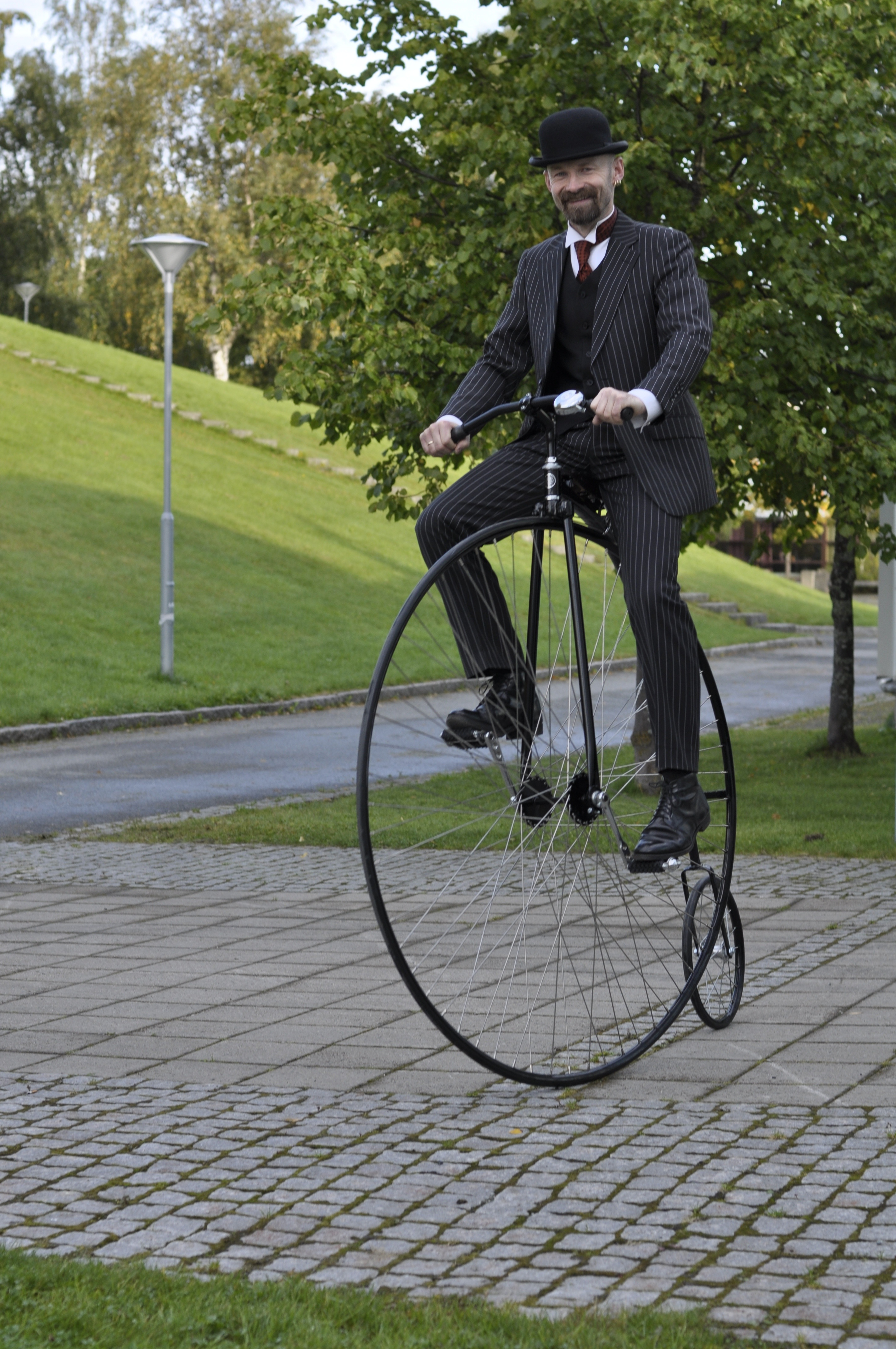 The Norwegian sociologist, professor at NTNU Trondheim, Aksel H. Tjora on his "boneshaker"